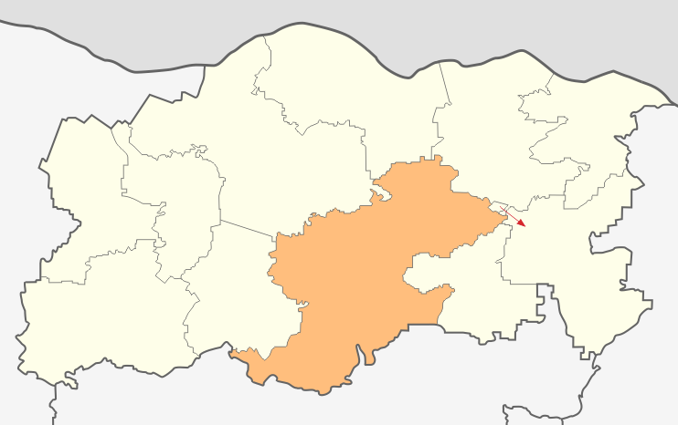 Map of Pleven municipality, Pleven Province